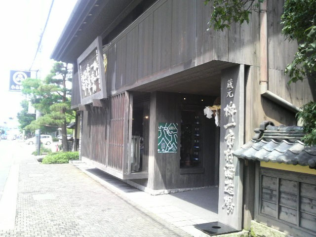 Masuichi Ichimura Sake brewing in OBUSE,JAPAN